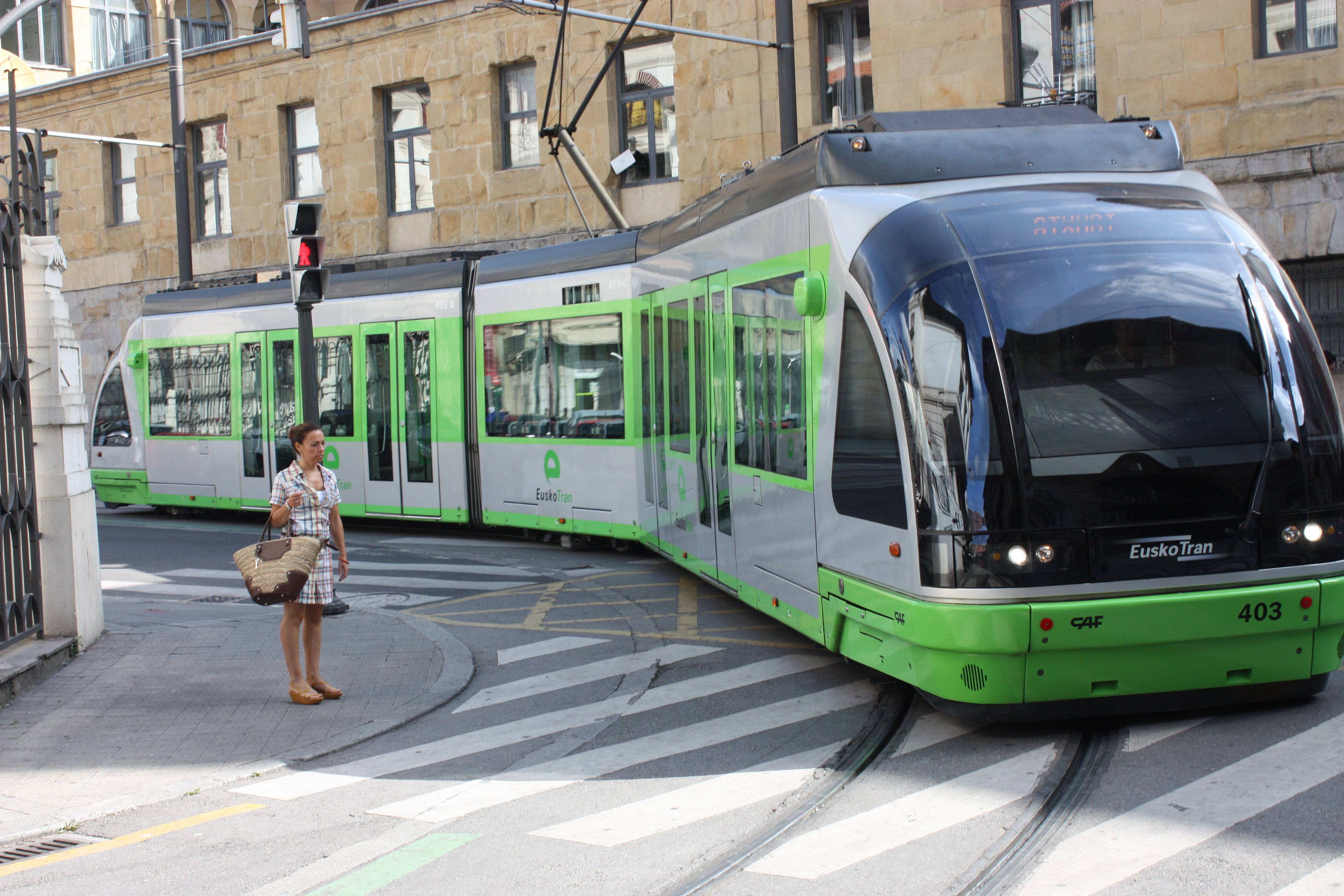 Tram arriving at Atxuri Station, Calle Atxuri, Bilbao, Biscay, Spain, July 2010